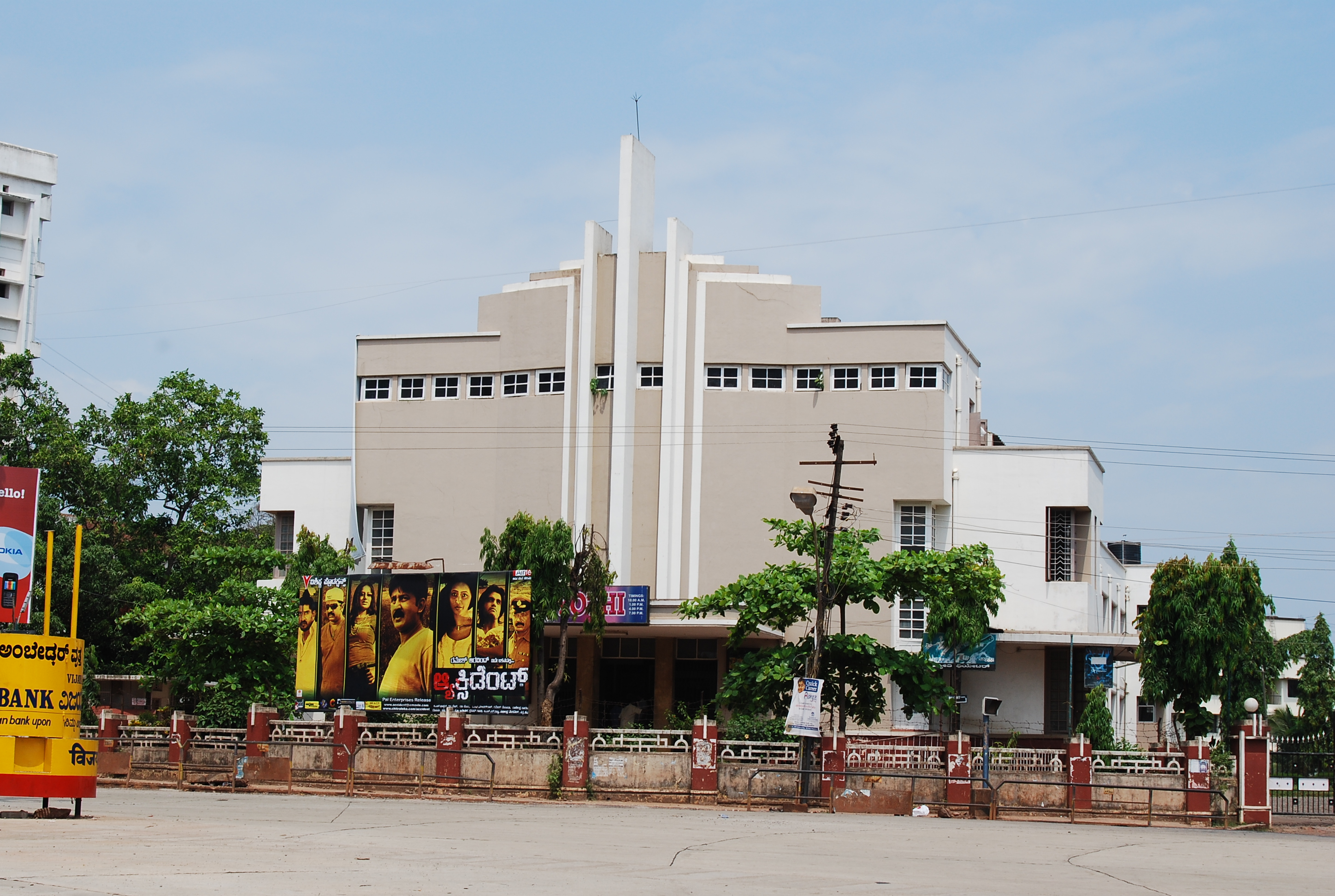 Jyothi Talkies in Mangalore. A movie theatre constructed in the old Art Deco style.